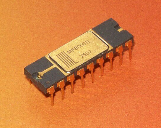 Micro MF8008R